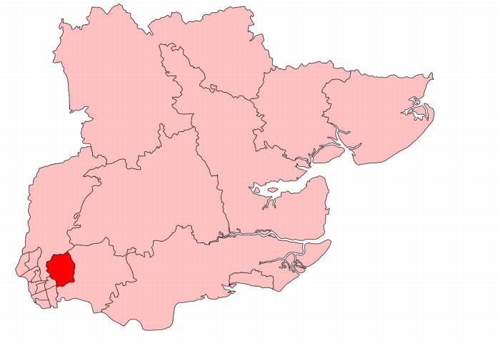 A map of Ilford constituency within Essex, as it existed from 1918 to 1945.